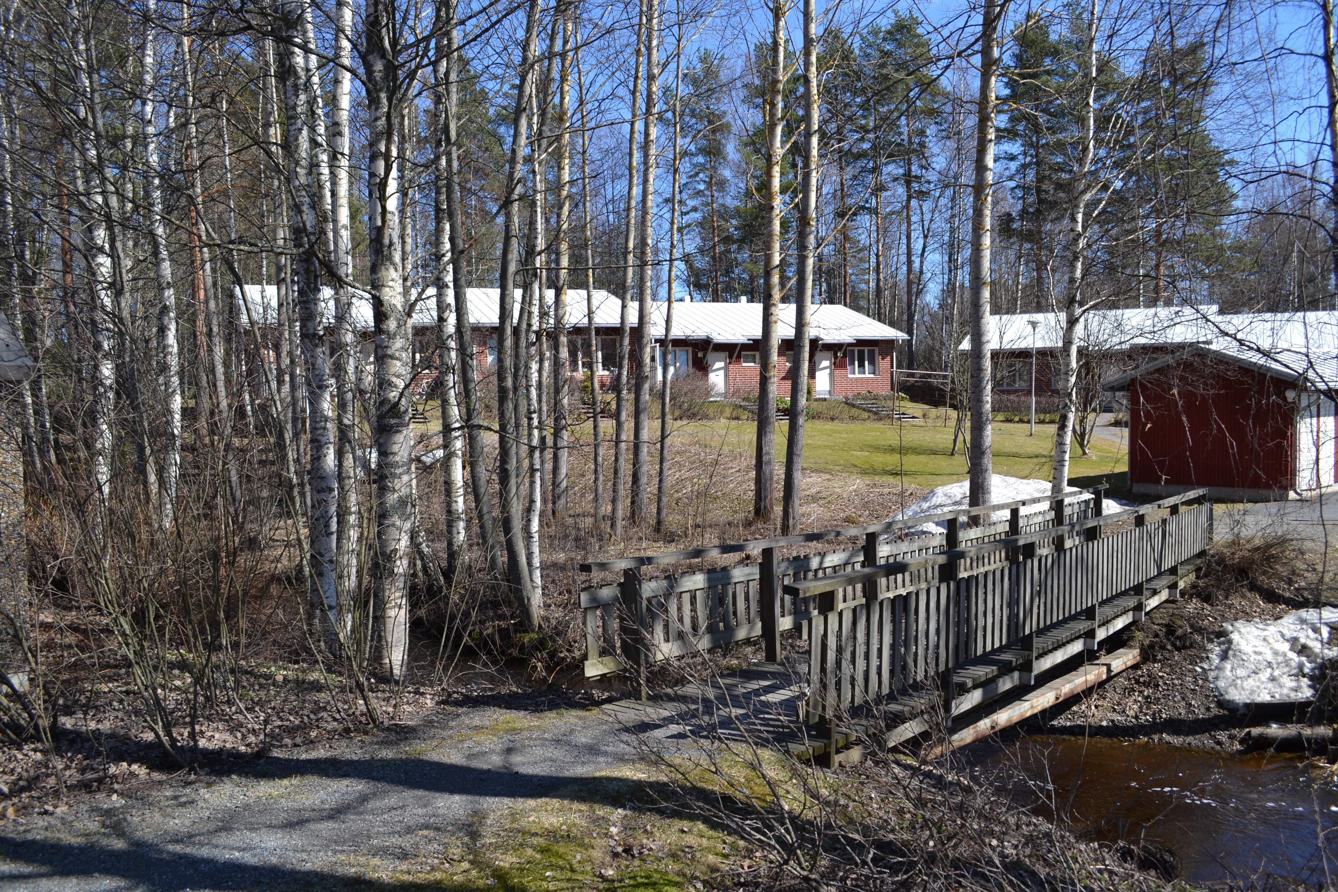 Creek Köyhänoja which carries water from lake Köhniönjärvi to lake Jyväsjärvi in the district of Kukkumäki in Jyväskylä, Finland.